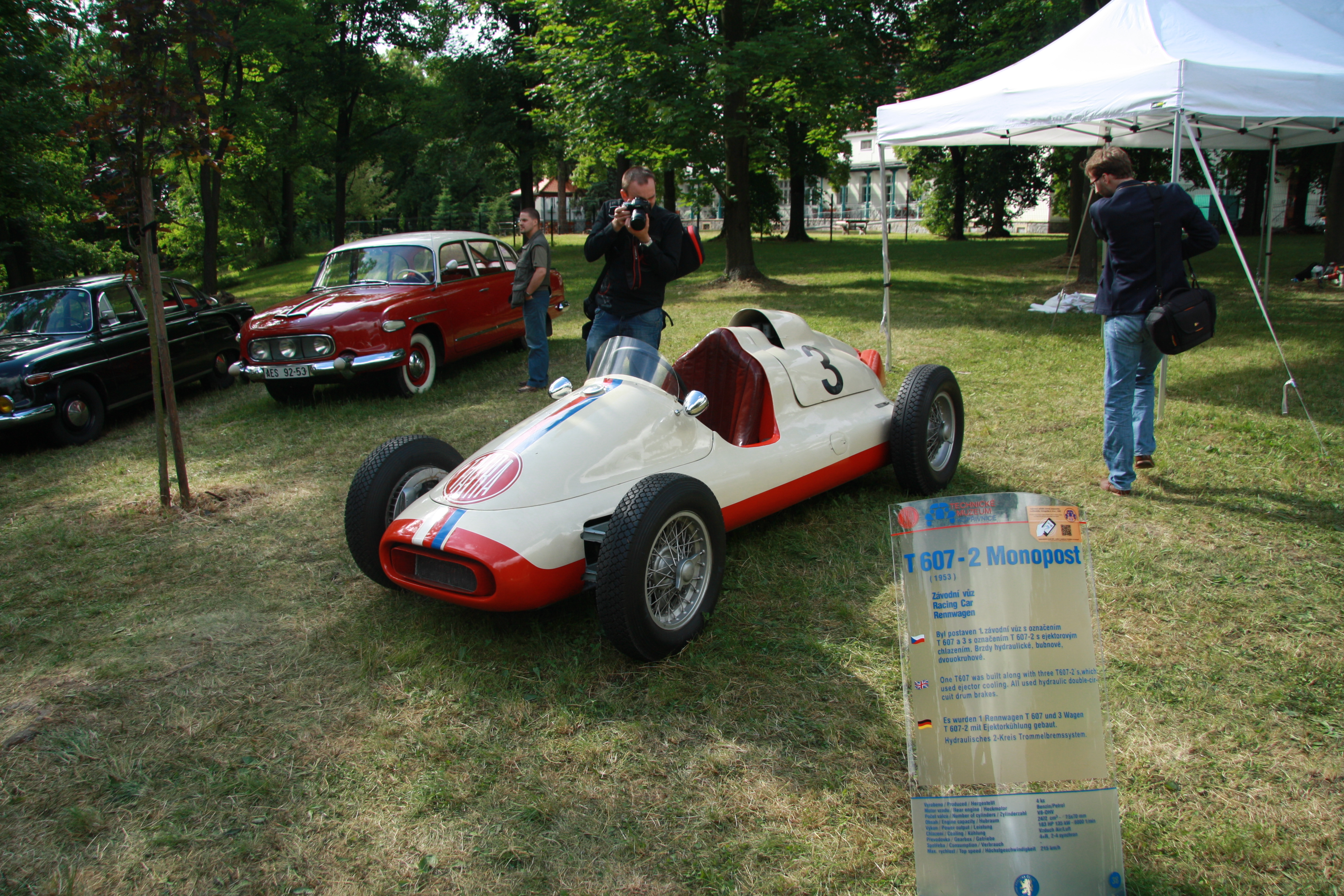 Tatra T607-2 monopost at Legendy 2014.